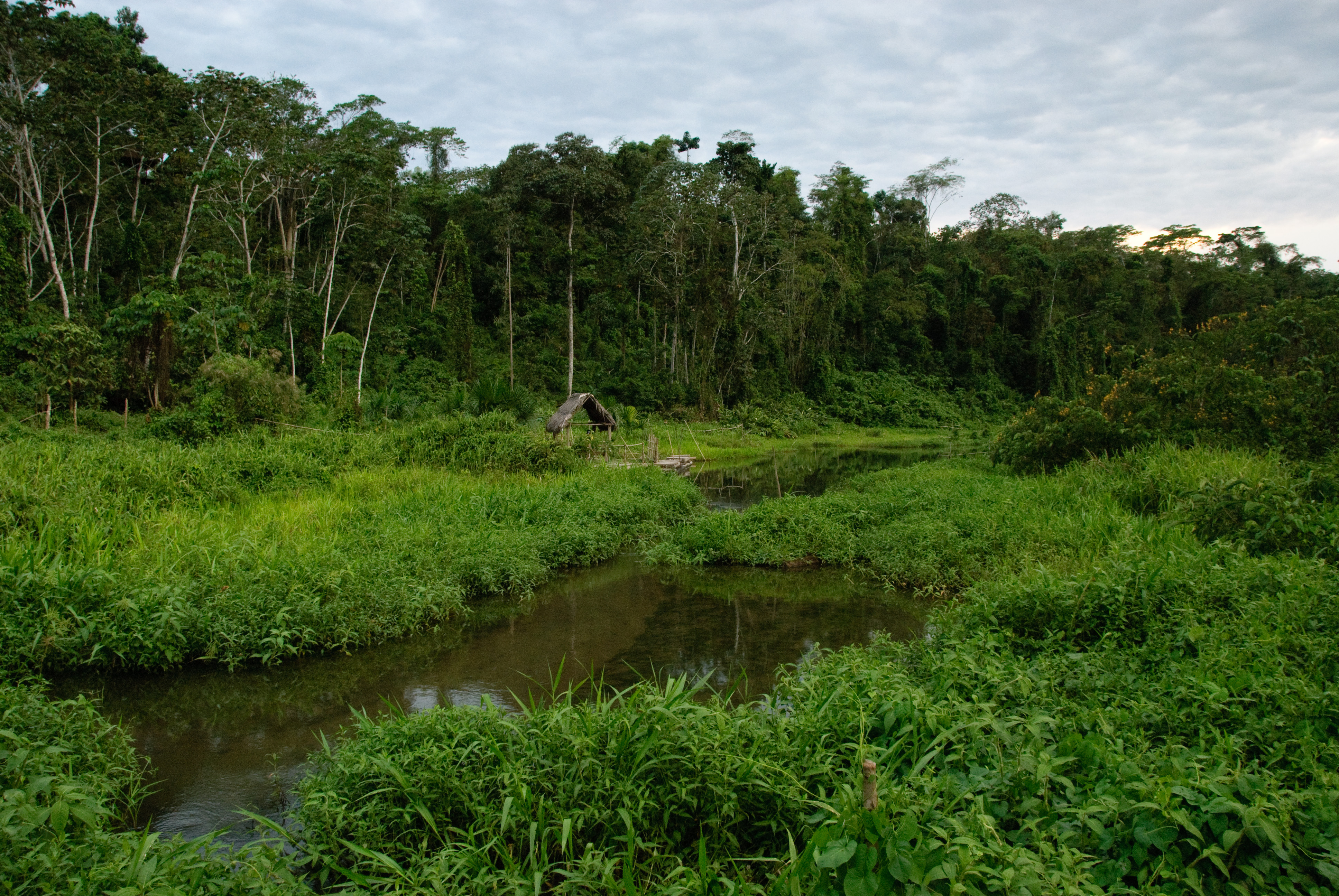 Manú National Park.